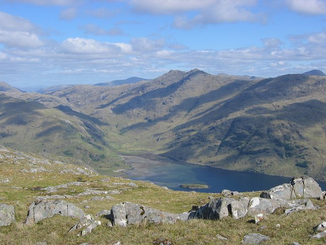 Loch Nevis from Màm Uchd. Màm Uchd is a pass across the Beinn Bhuide ridge. The view is down to the head of Loch Nevis, backed by Bidein a'Chabhair.